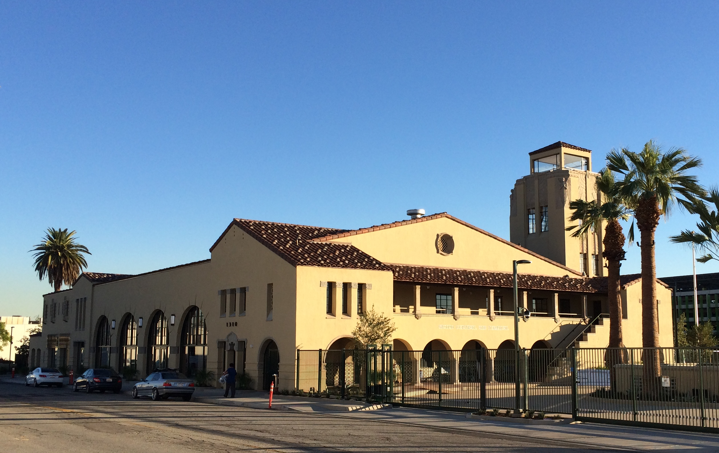 Northeast Corner of Grand Central Air Terminal Building after renovation